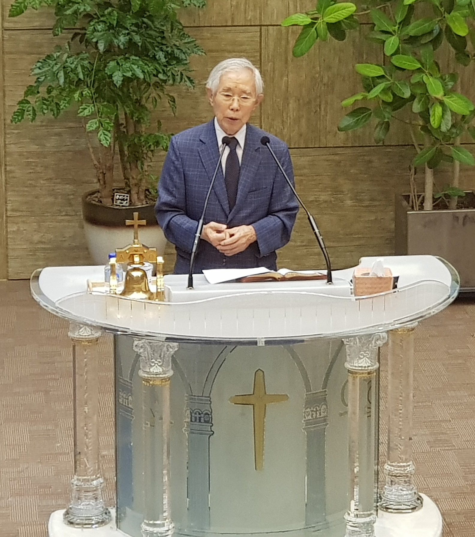 Dr. BongHo Son in Samyung Church, Soowon, S. Korea